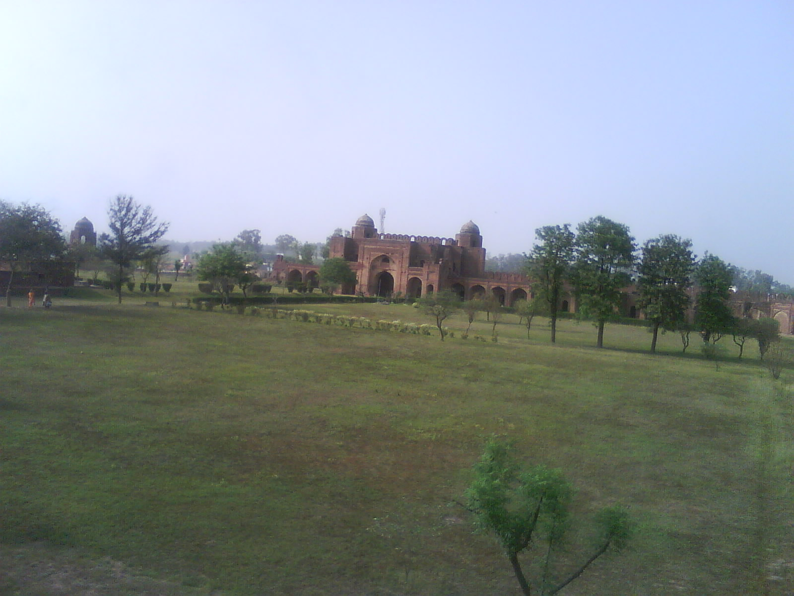 View of Doraha Serai